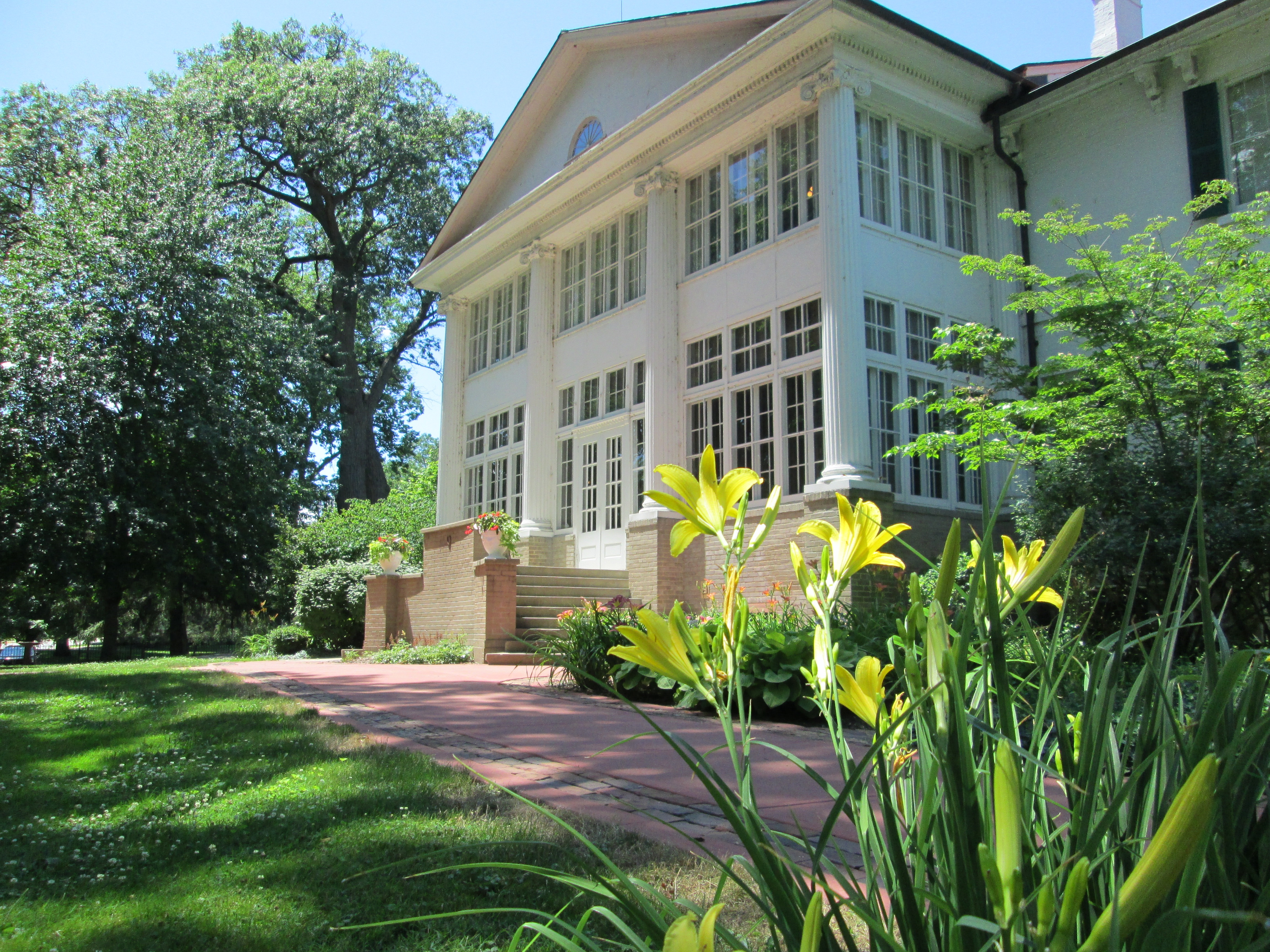 Lilies blooming in rear Dillon Home grounds